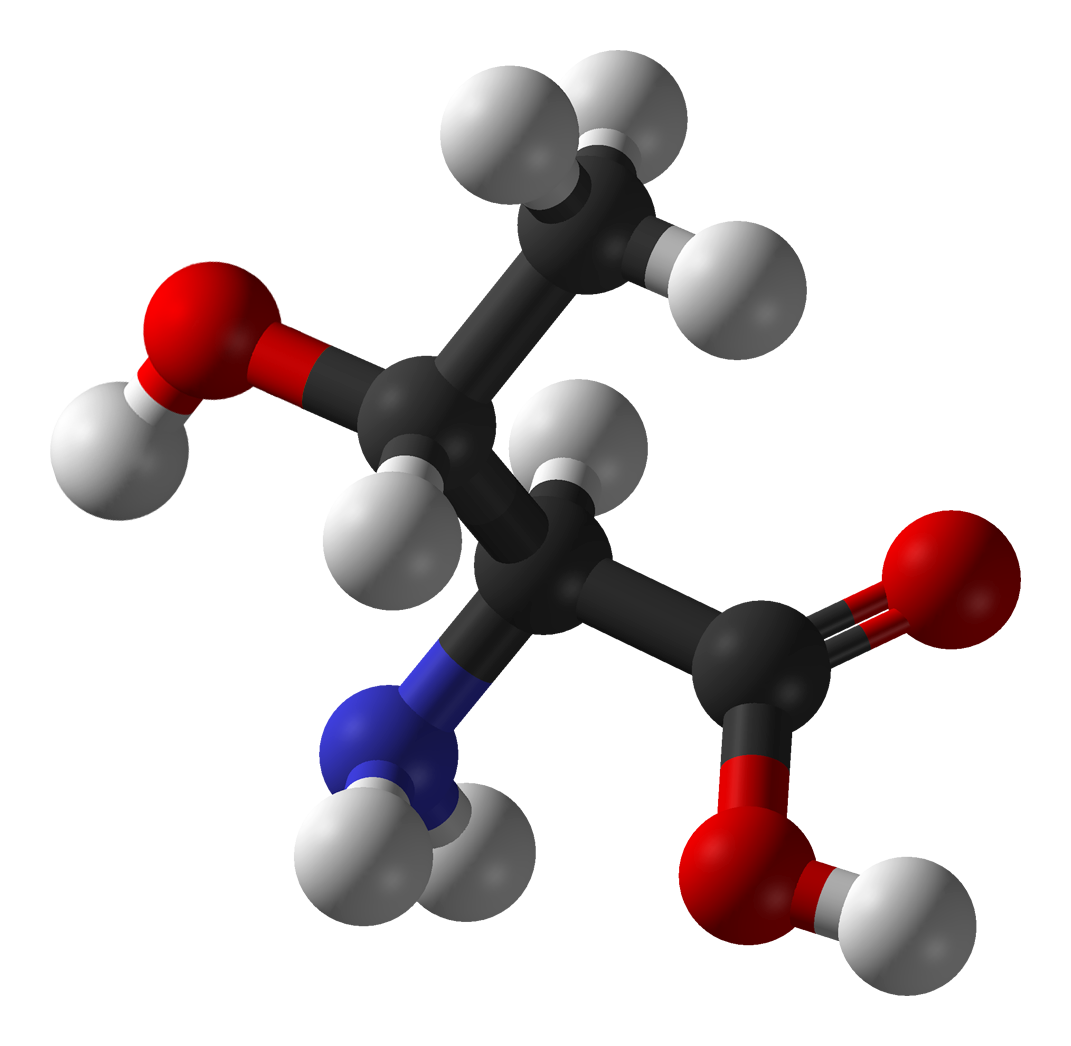 Ball-and-stick model of the L-threonine molecule, one of the 20 common amino acids used by living organisms to form proteins.